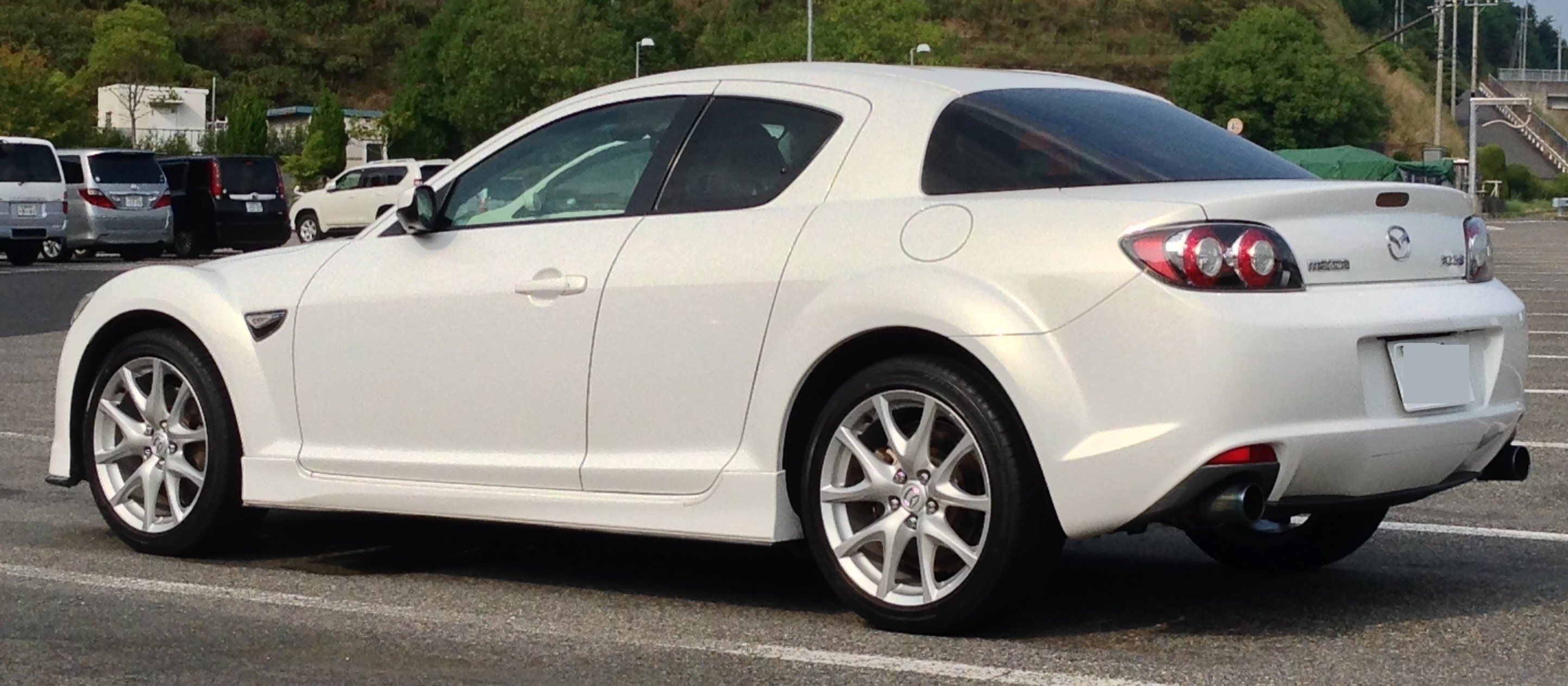 RX-8 2010Y-MODEL TYPE-S